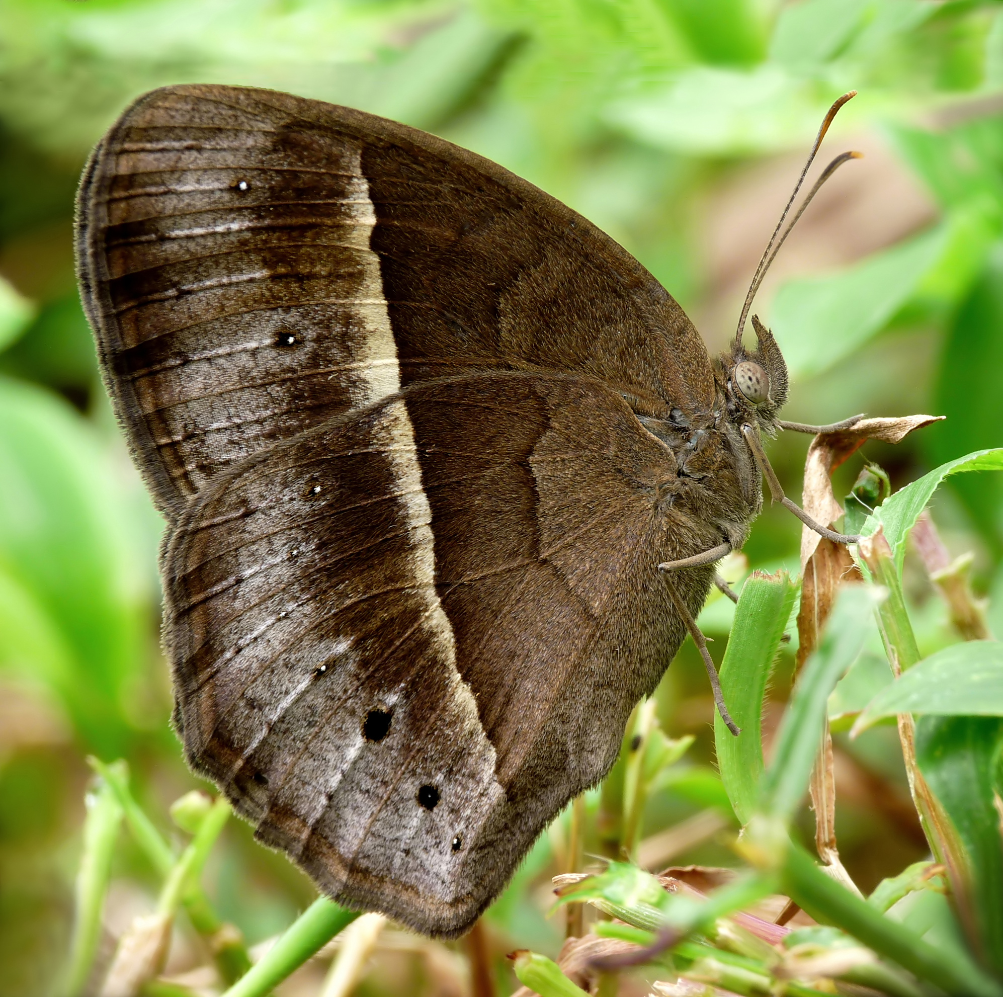 Mycalesis= Mycalesis perseus (Fabricius, 1775) dry-season form det. Robert Nash 2012. The Dingy Bushbrown or Common Bushbrown (Mycalesis perseus) is a species of satyrine butterfly found in South Asia and Southeast Asia. Taken at Kadavoor, Kerala, India